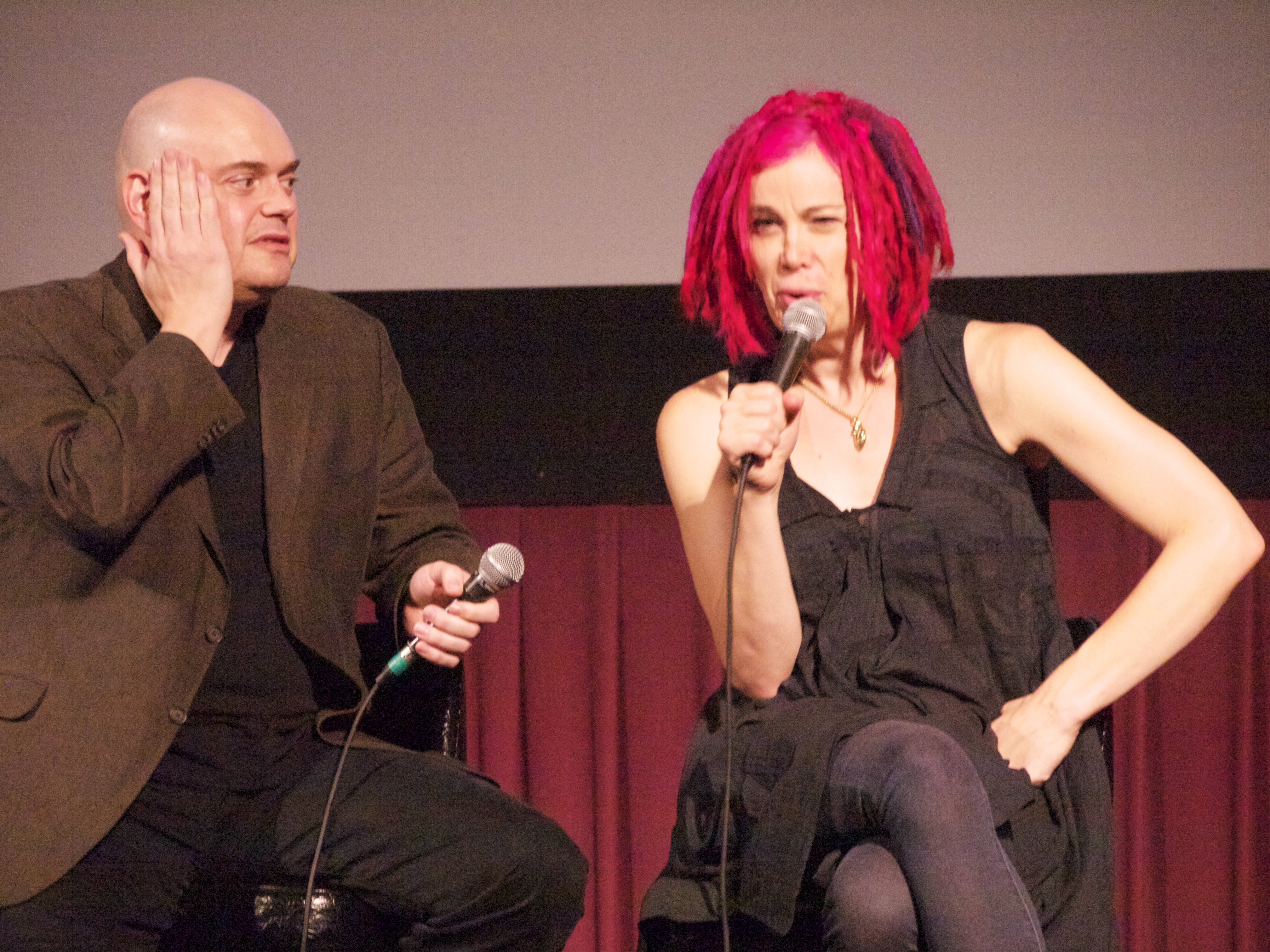 Picture